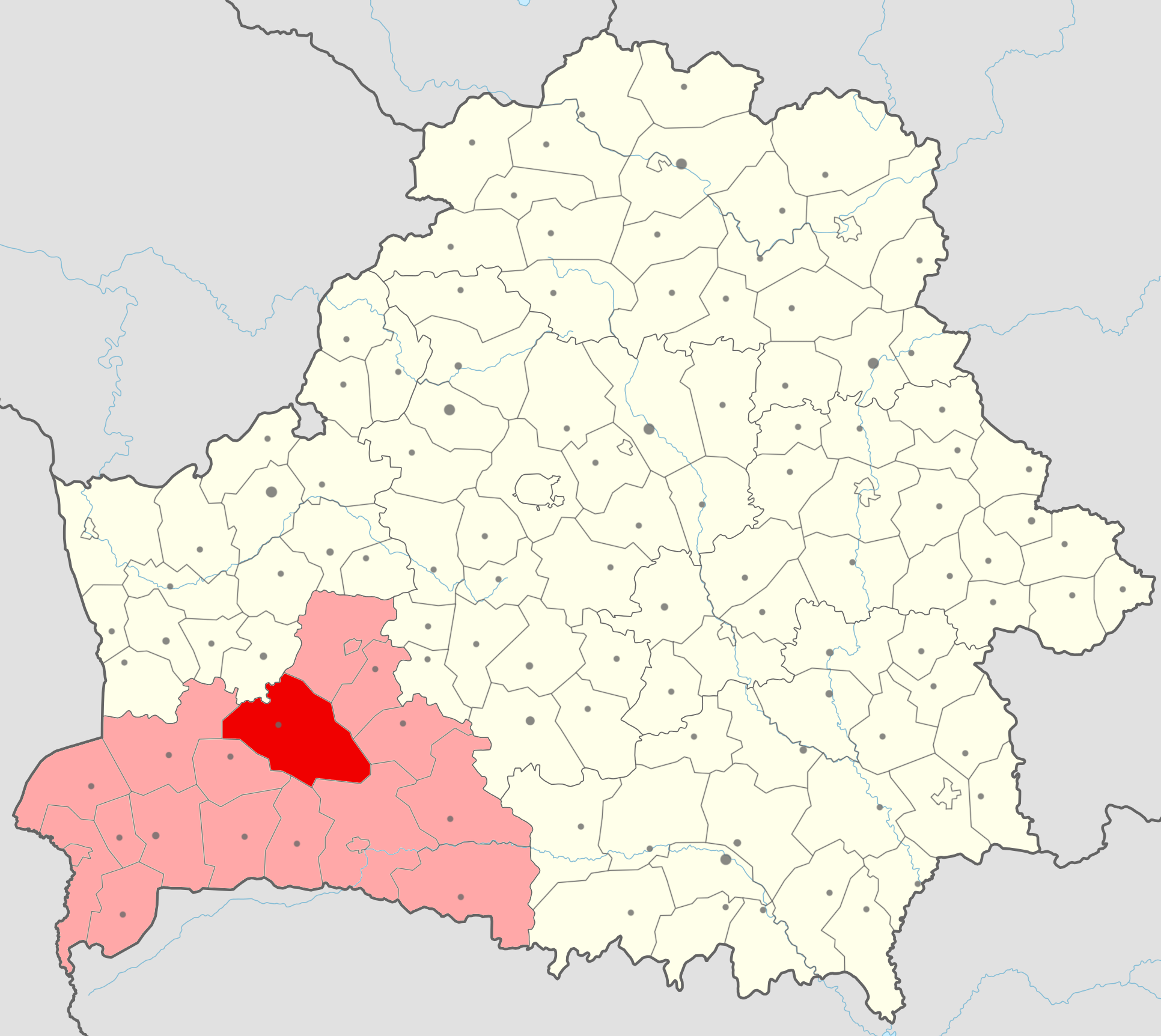 Location of Ivacevicki rajon (red) in Bresckaja voblasć (light red) in Belarus.